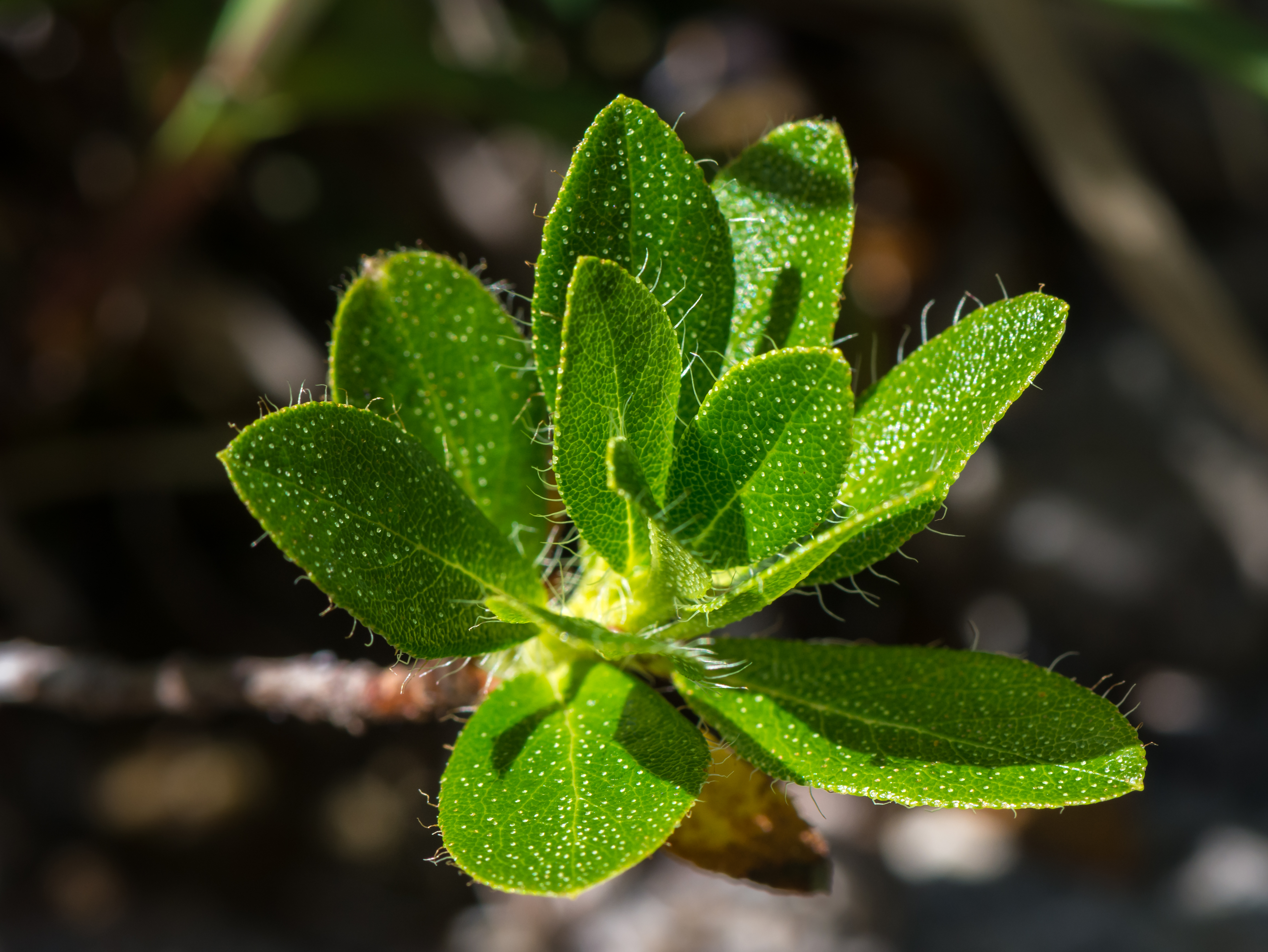 Leaves of hairy rhododendron (Rhododendron hirsutum) in the Ötscher Canyon, nature park Ötscher-Tormäuer, Lower Austria